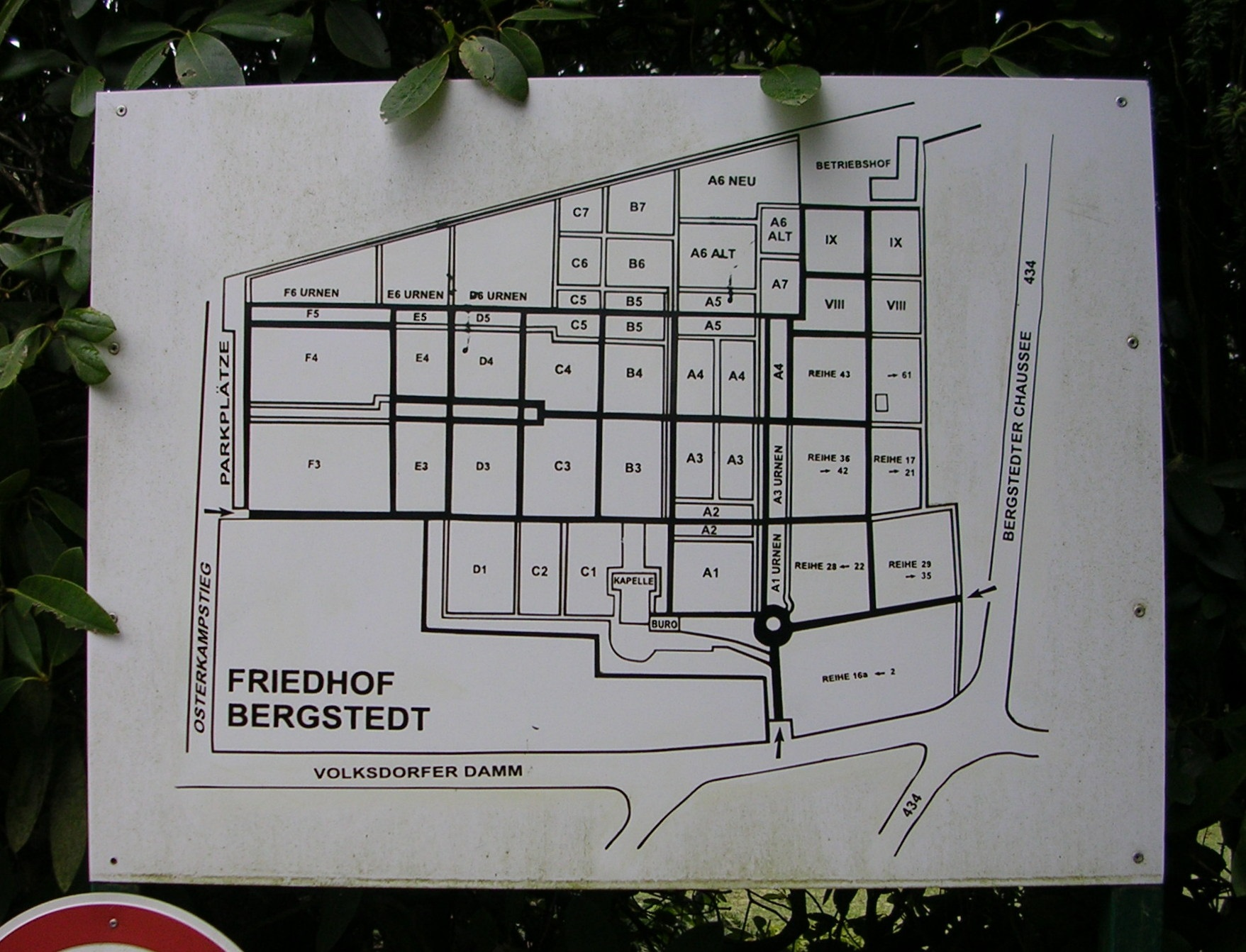 Map (with anotations of prominent people) at the cemetery in Hamburg-Bergstedt.